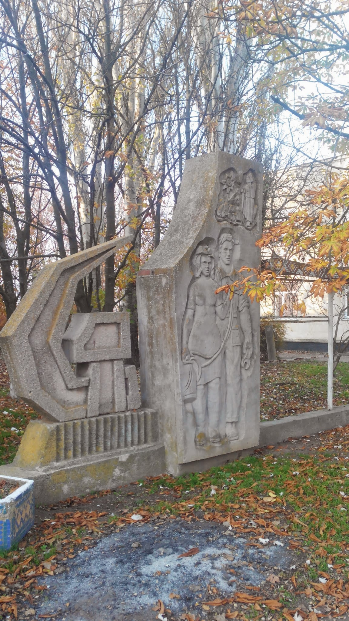 Soviet monument in Chonhar, Kherson Oblast, Ukrainear, Khersons'ka oblast, Ukraine]